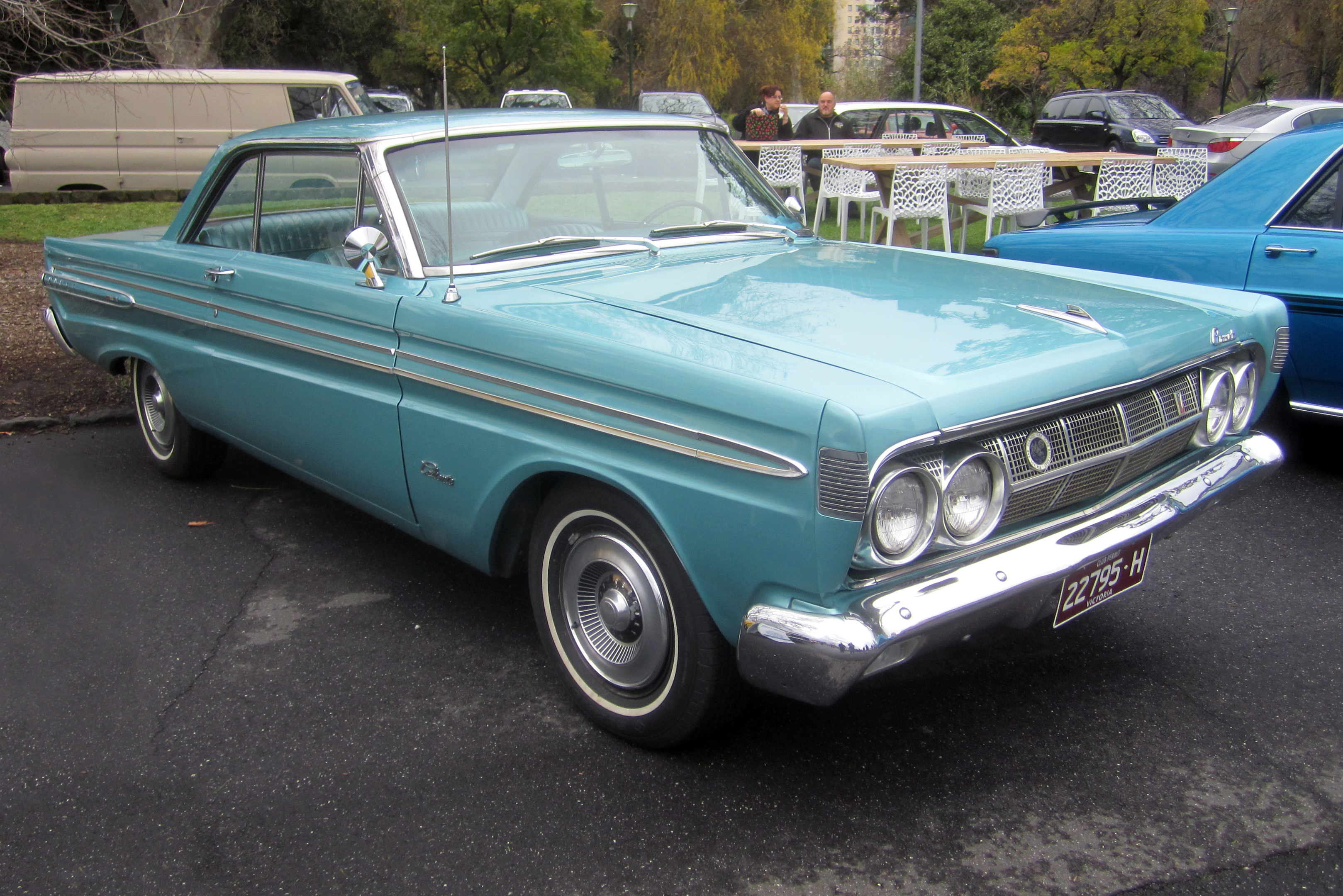 Silver Turquoise. The Comet was built from 1960-77, initially, it was based on the Falcon but slightly longer wheelbase and upmarket interior. This, the 1964-65 2nd generation had a squarer shape than the 1st generation. In 1964, the grille was similar to the Lincoln Continental, whereas the facelift in 1965, they had stacked headlights similar to the Fairlane. Base model was the 202, then 404, top of the line was the Caliente. The performance model was now the Cyclone, replacing the S-22, Base engine was the 170 cu in 6 cyl, an option and standard on the Cyclone, was the 260 Ford V8, later getting the 289. 50 Cyclones got the 427 V8